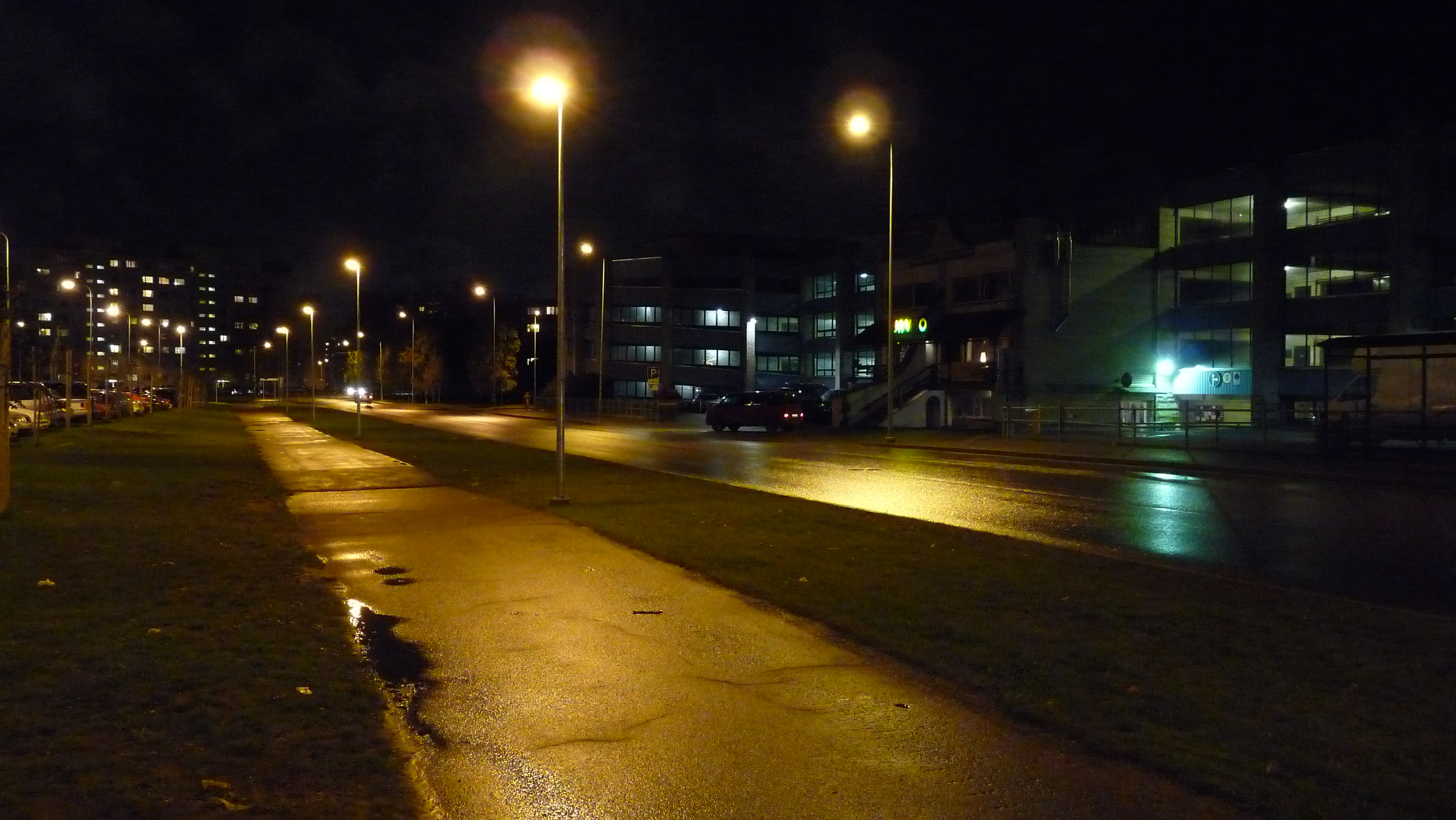 Raadiku street in Tallinn, Estonia.